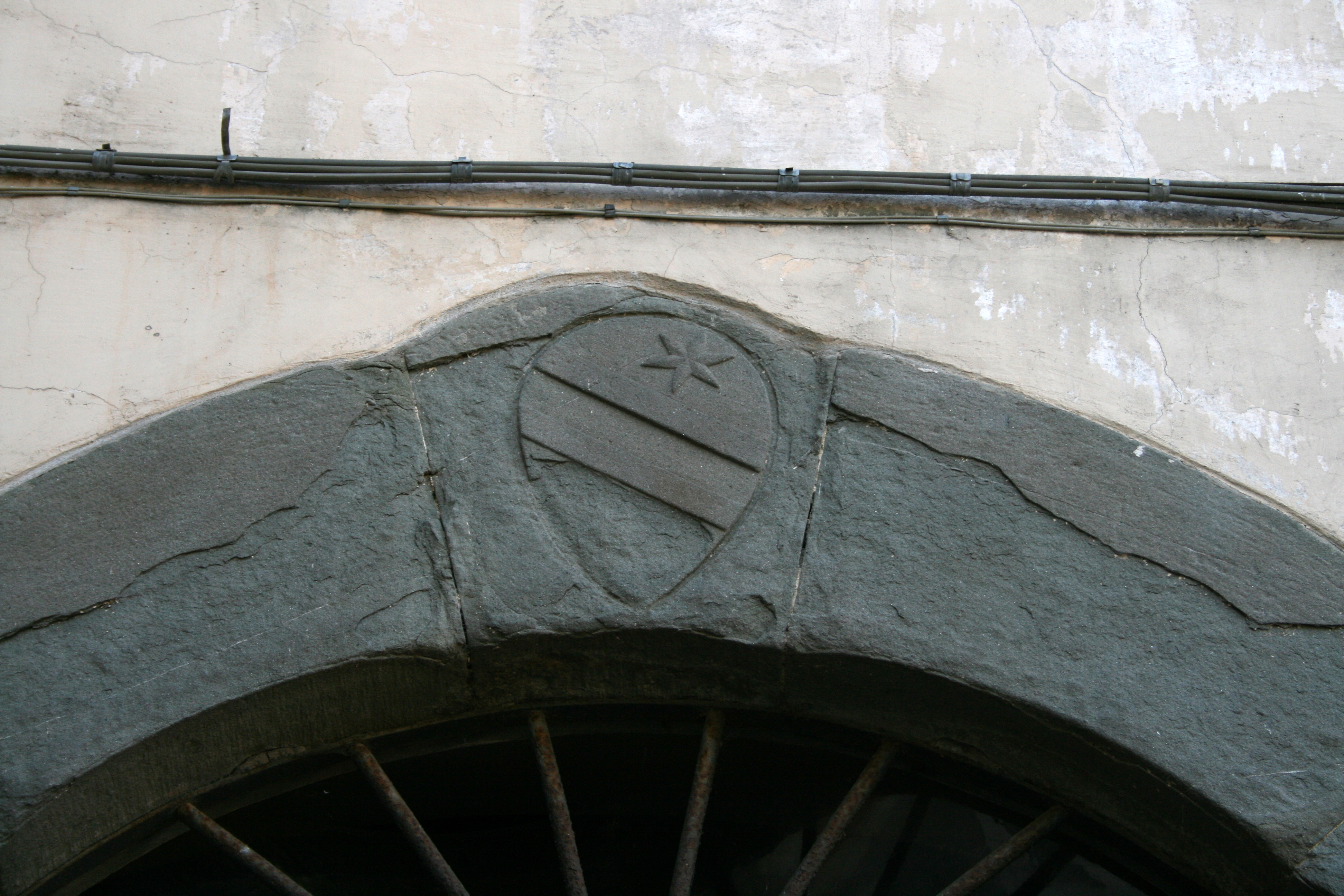 benedectin coat of arms in the Monastery of La Ginestra in Montevarchi